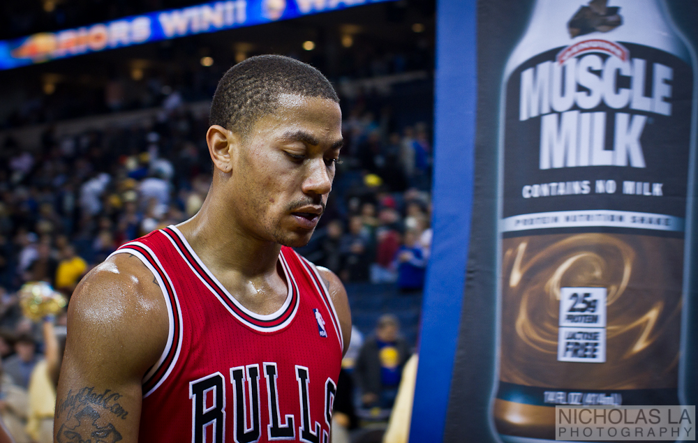 Derrick Rose with the Chicago Bulls